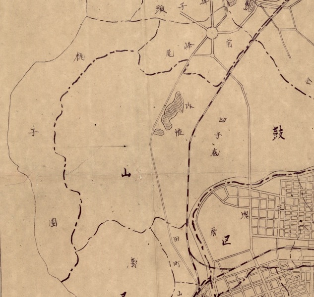 Tho-a-hng and surrounding areas from a 1946 map